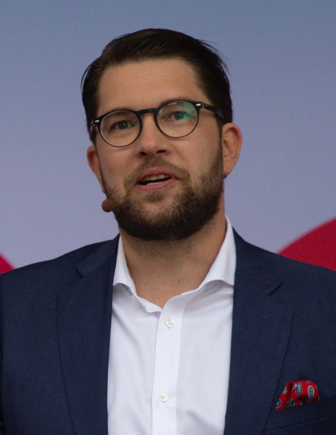 Jimmie Åkesson, Almedalen 2018.